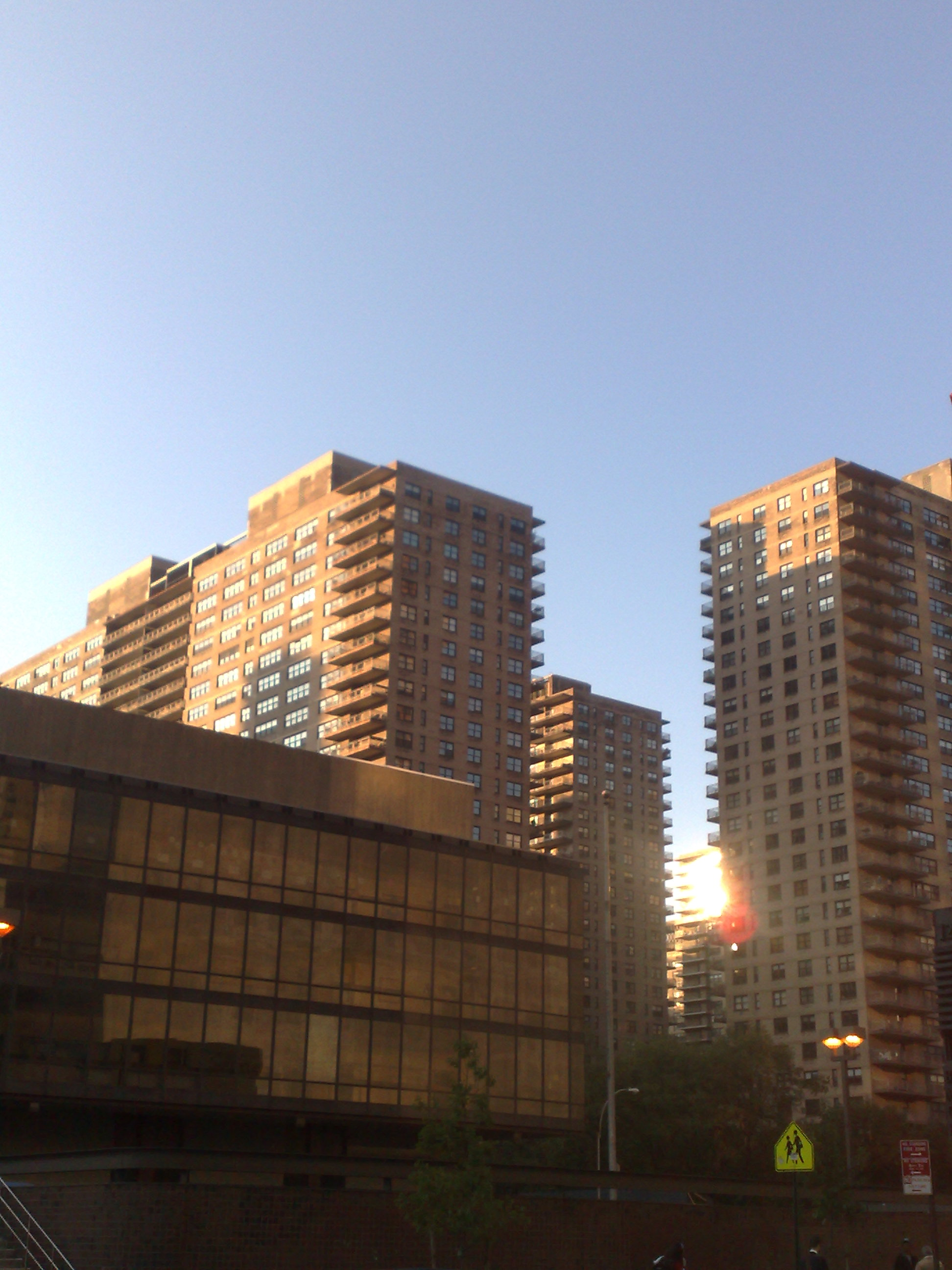 This photo is of Wikis Take Manhattan goal code A13, Lincoln Towers.